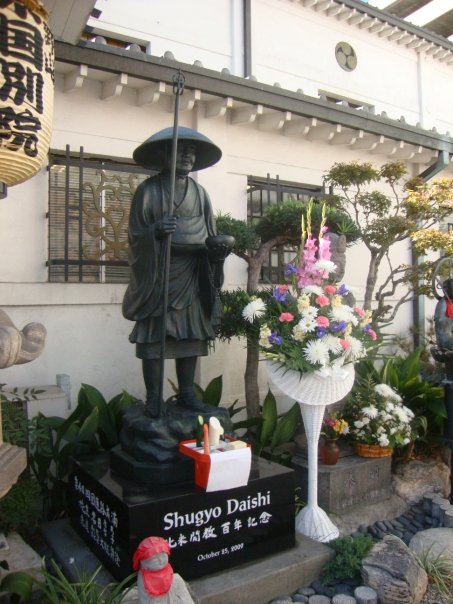 Kobo Daishi statue outside Los Angeles Koyasan Buddhist Temple on the day of its dedication, 25 October 2009